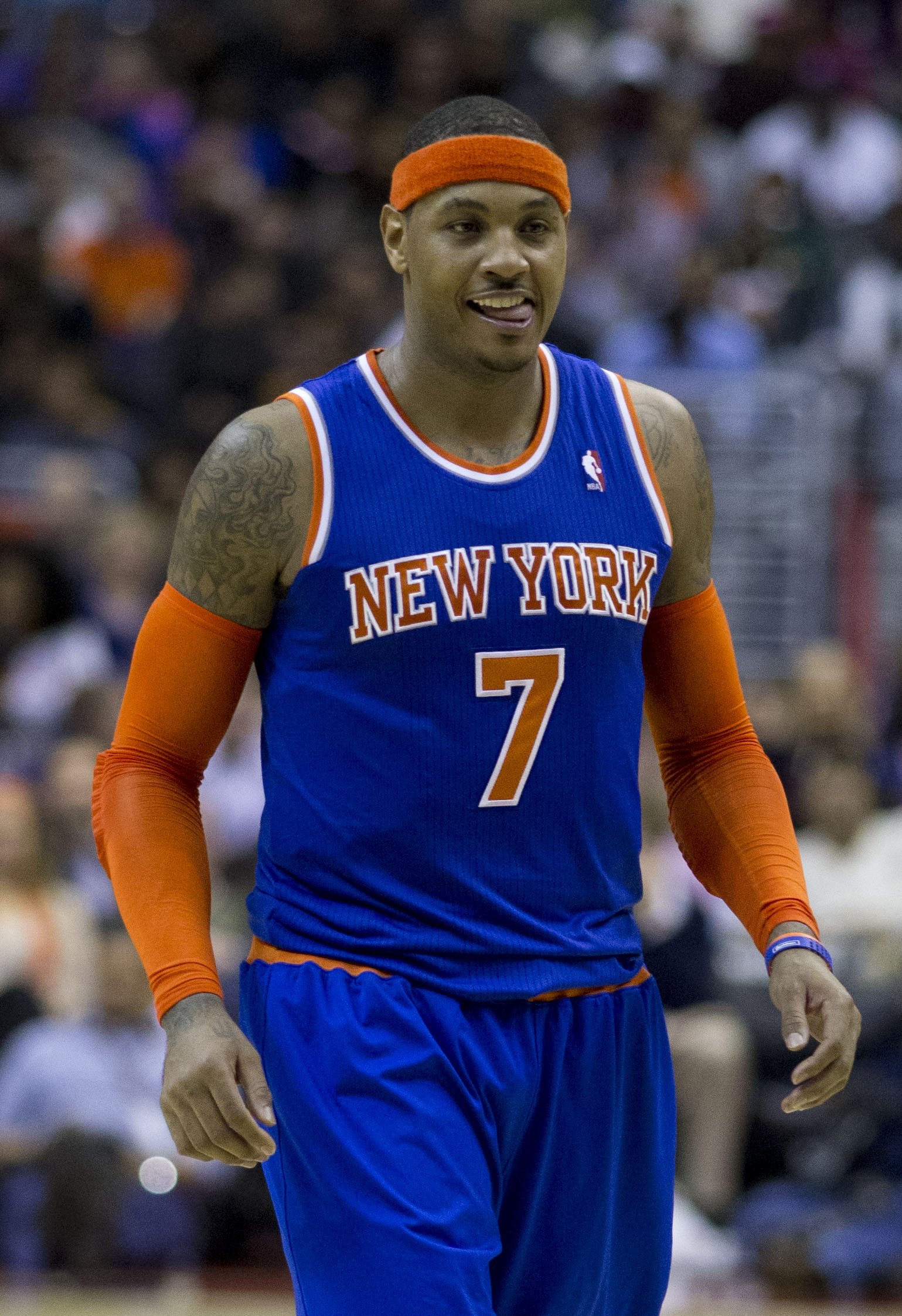 Knicks at Wizards 11/23/13